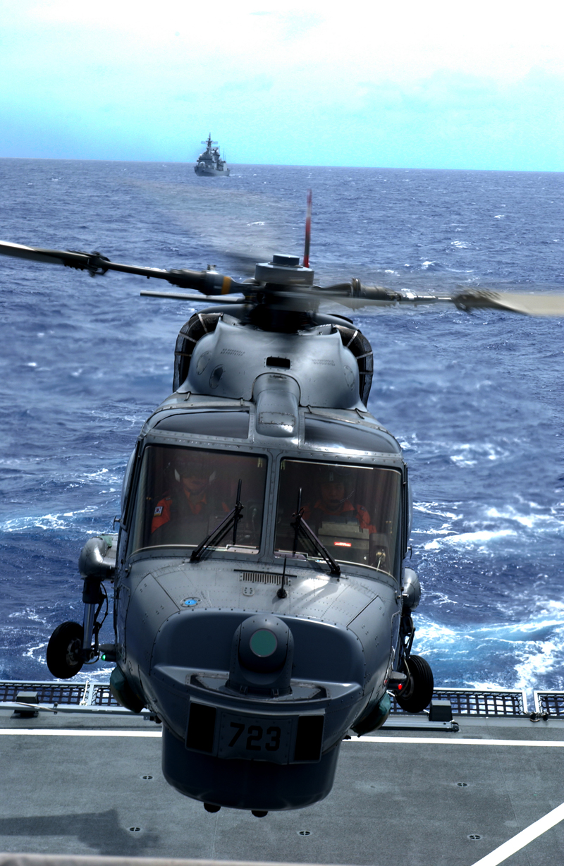 LYNX from the ROK Navy is taking off while participating in RIMPAC Exercise 2006.